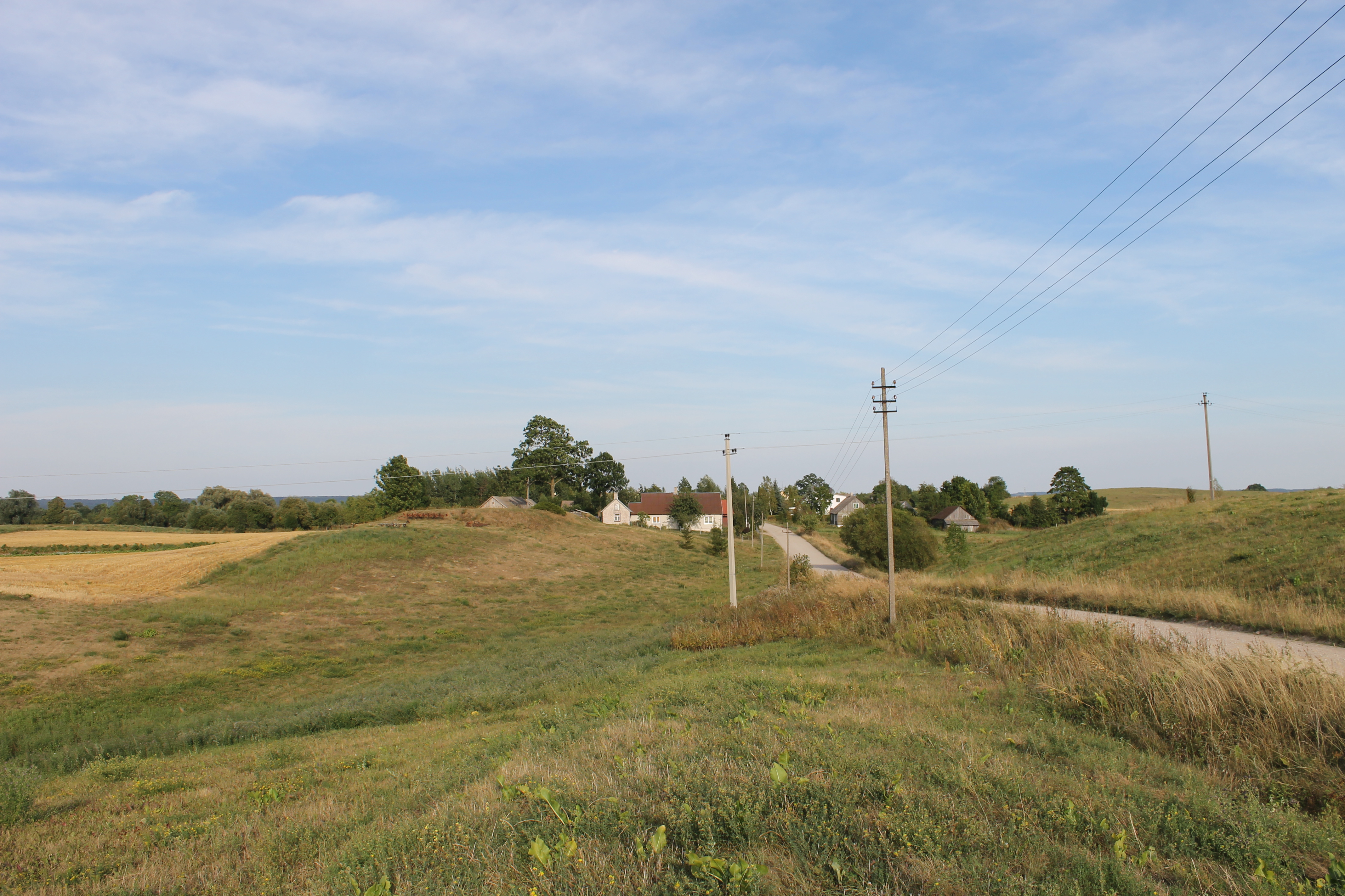 Maišymai village, Lazdijai district, Lithuania